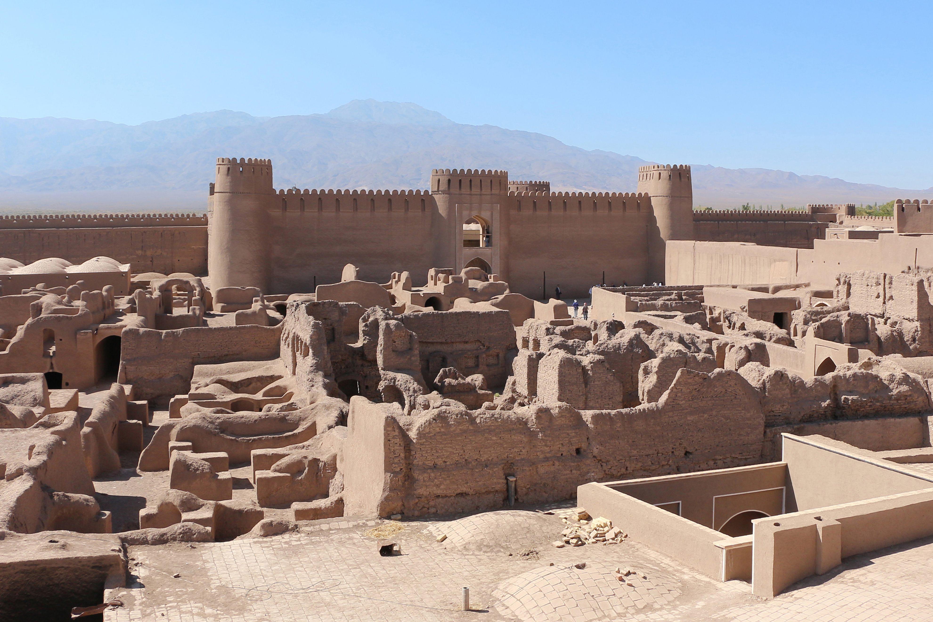 Rayen Castle, Iran viewed from the north-east